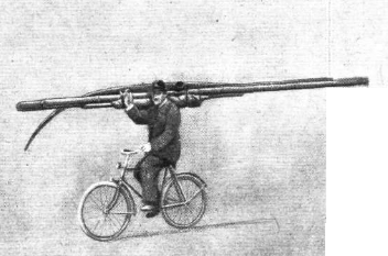 Platz glider being tranported 1922